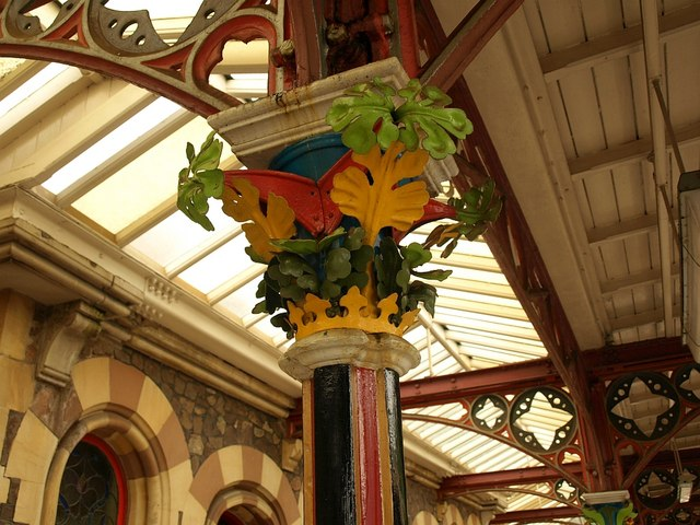 Decorated capital, Great Malvern Station Another of William Forsyth's foliage capitals, dating from the start of the 1860's, a little further along the platform from 968558.